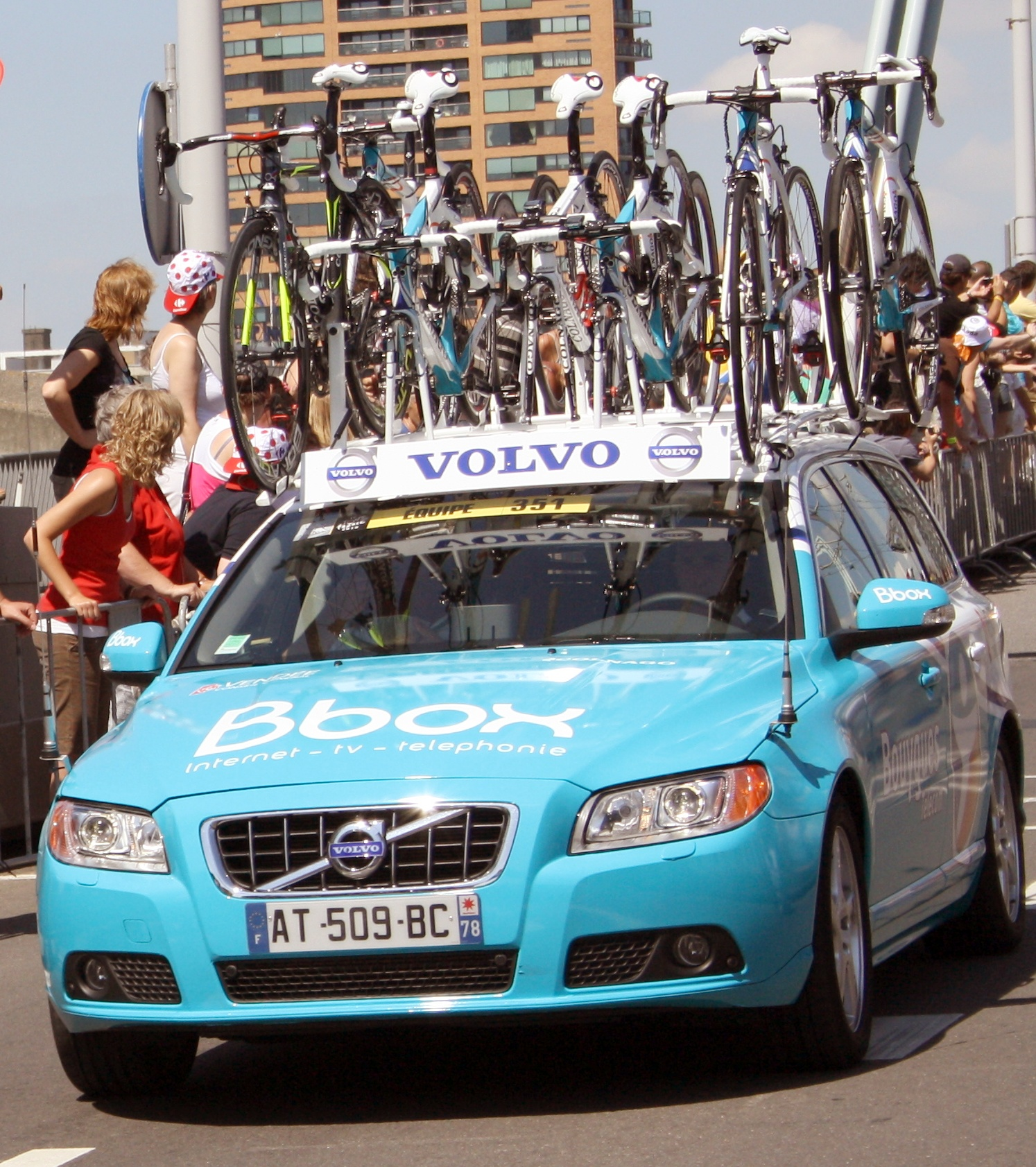 Bbox team car at the start of the first stage of the 2010 Tour de France in Rotterdam